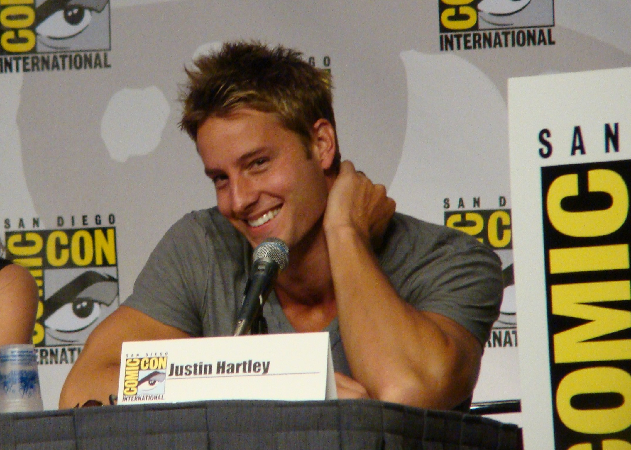 Erica Durance & Justin Hartley